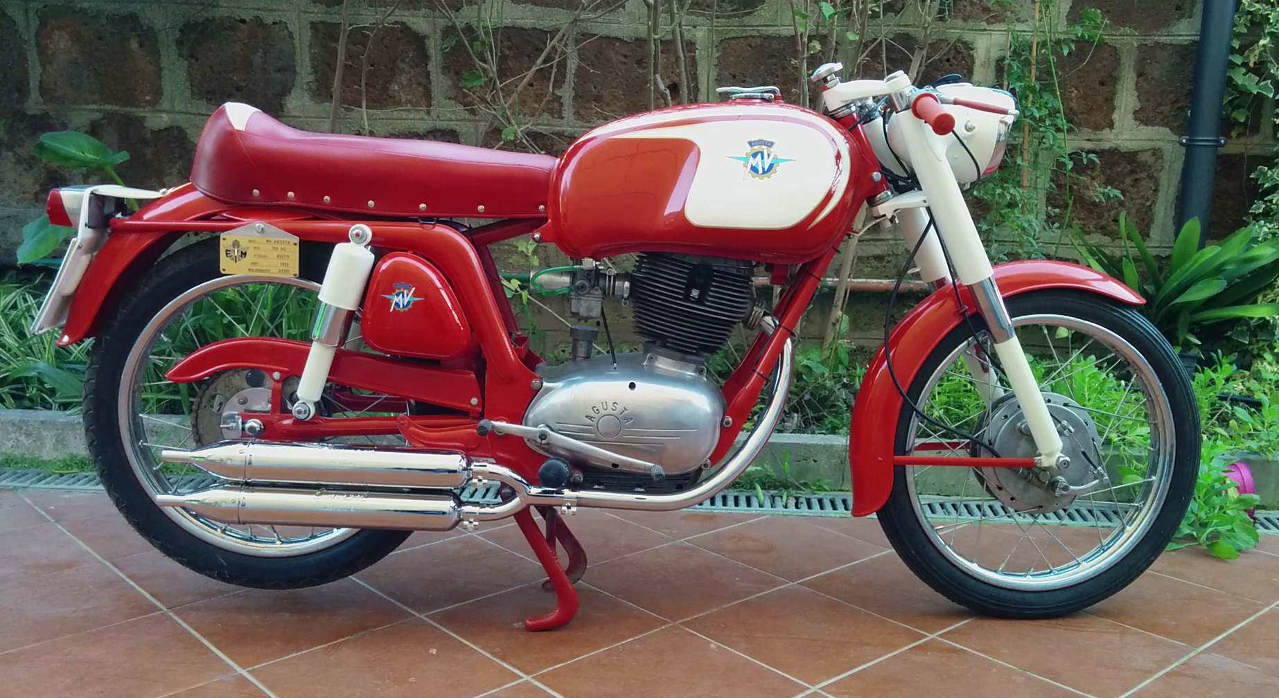 MV Agusta 150 Rapido Sport 1° series